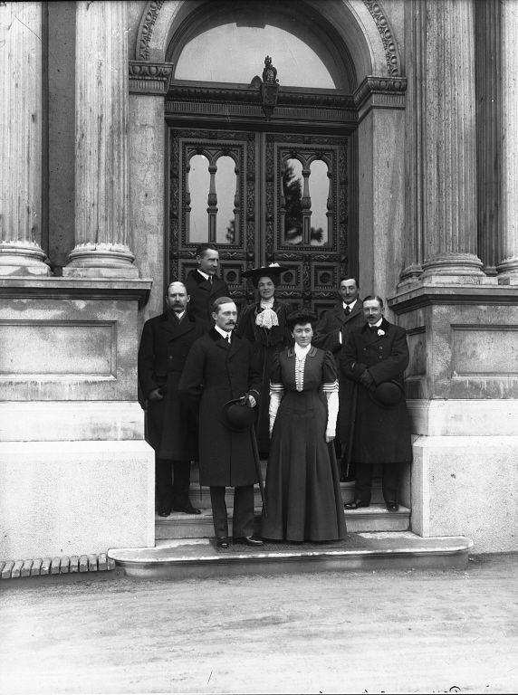 Prince Arthur's group, "Ravenscrag," Montreal, 1906 (Photograph); 1906, 20th century; Silver salts on glass - Gelatin dry plate process; 25 x 20 cm; Purchase from Associated Screen News Ltd.; VIEW-8768; © McCord Museum